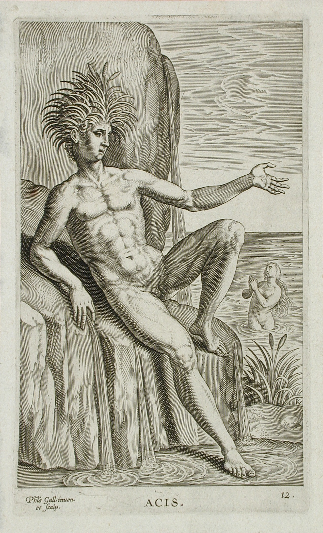 Holland, 1586 Series: Sea and River Gods, pl. 12 Prints; engravings Engraving Mary Stansbury Ruiz Bequest (M.88.91.382m) Prints and Drawings